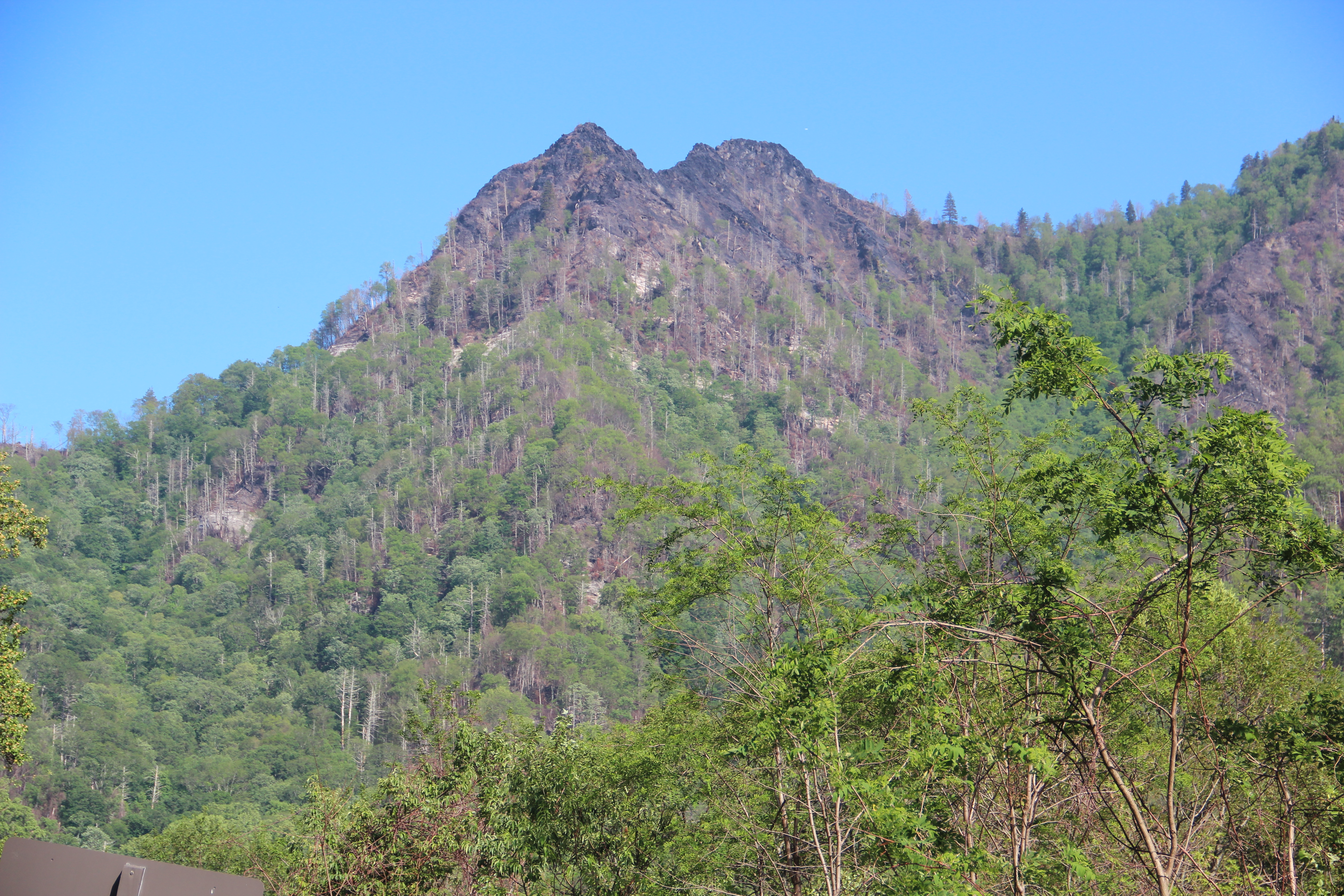 Chimney Tops viewed from Chimney Tops overlook. Burns from the 2016 Smoky Mountain fires are visible